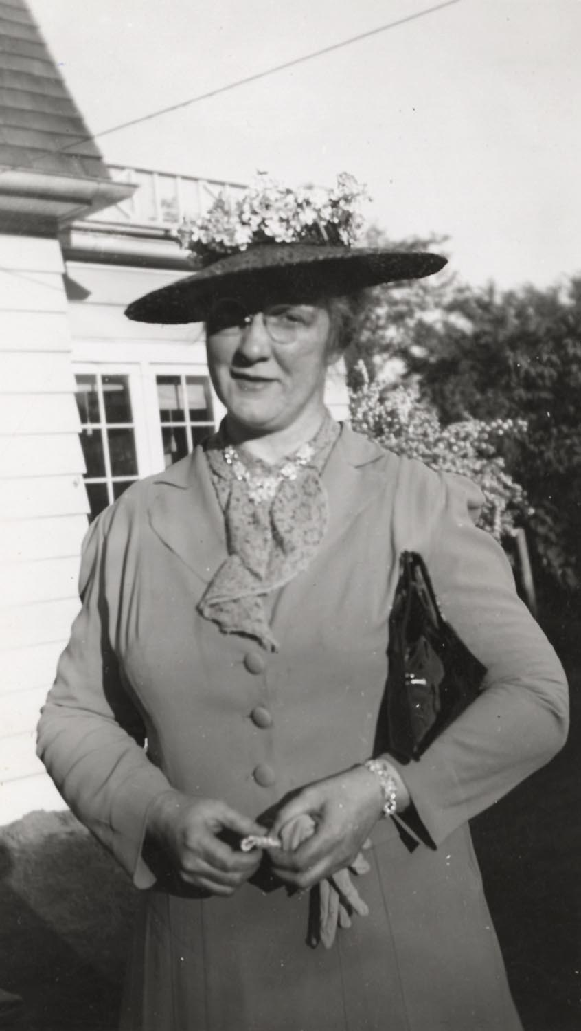 From archives: "English professor Helen C. White is pictured outdoors in a coat and hat. The caption reads 'Professor of American Literature at UW. Helen had an illustrious career there and nationally. Scholar and novelist, she was also national president of the AAUW ans was on the international UNESCO committee.' (Photo from Ruth Pochmann)" Local identifier: UW.uwar04878.bib